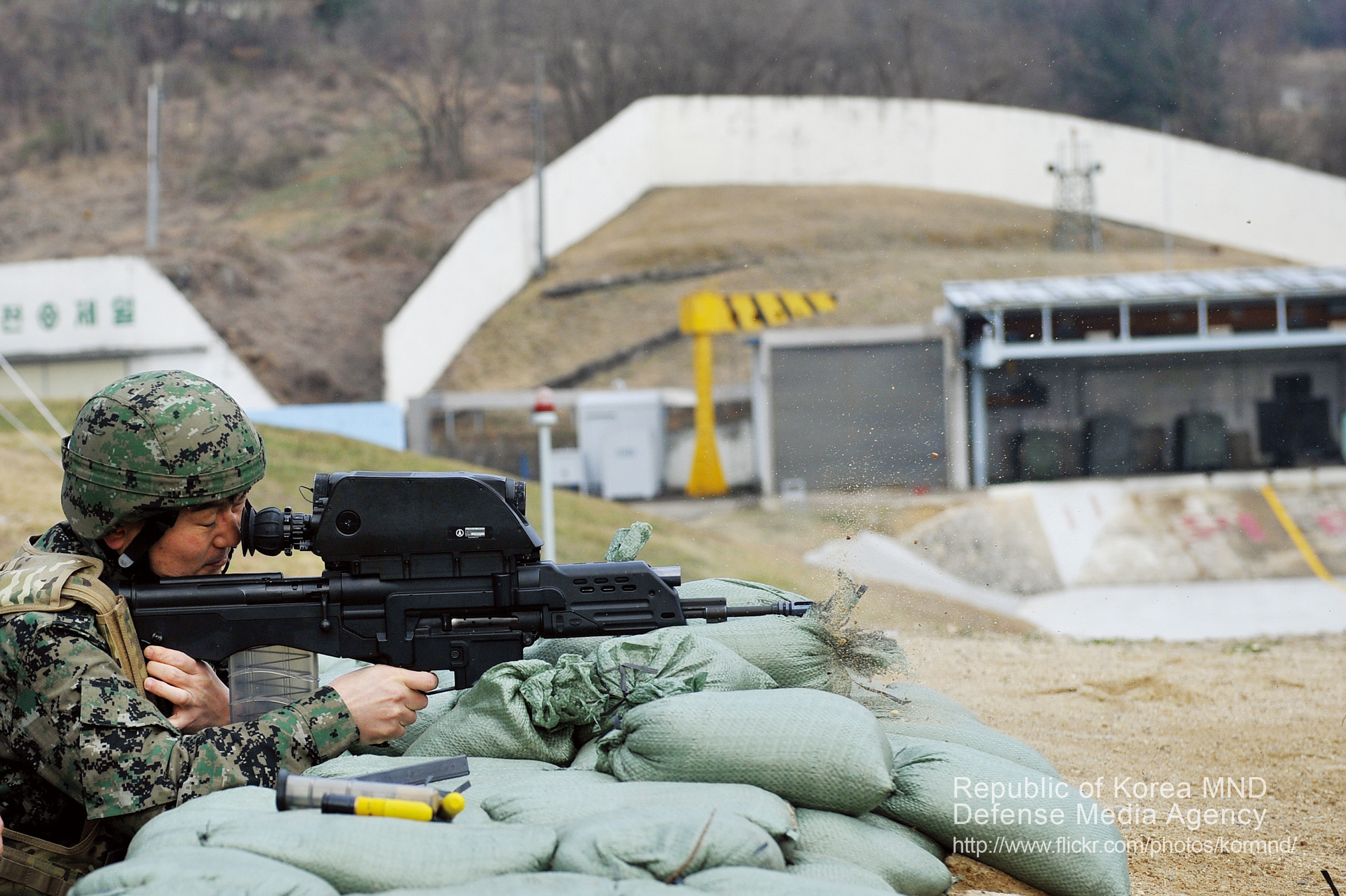 2009 국방화보 Rep. of Korea, Defense Photo Magazine K-11 차기복합소총.